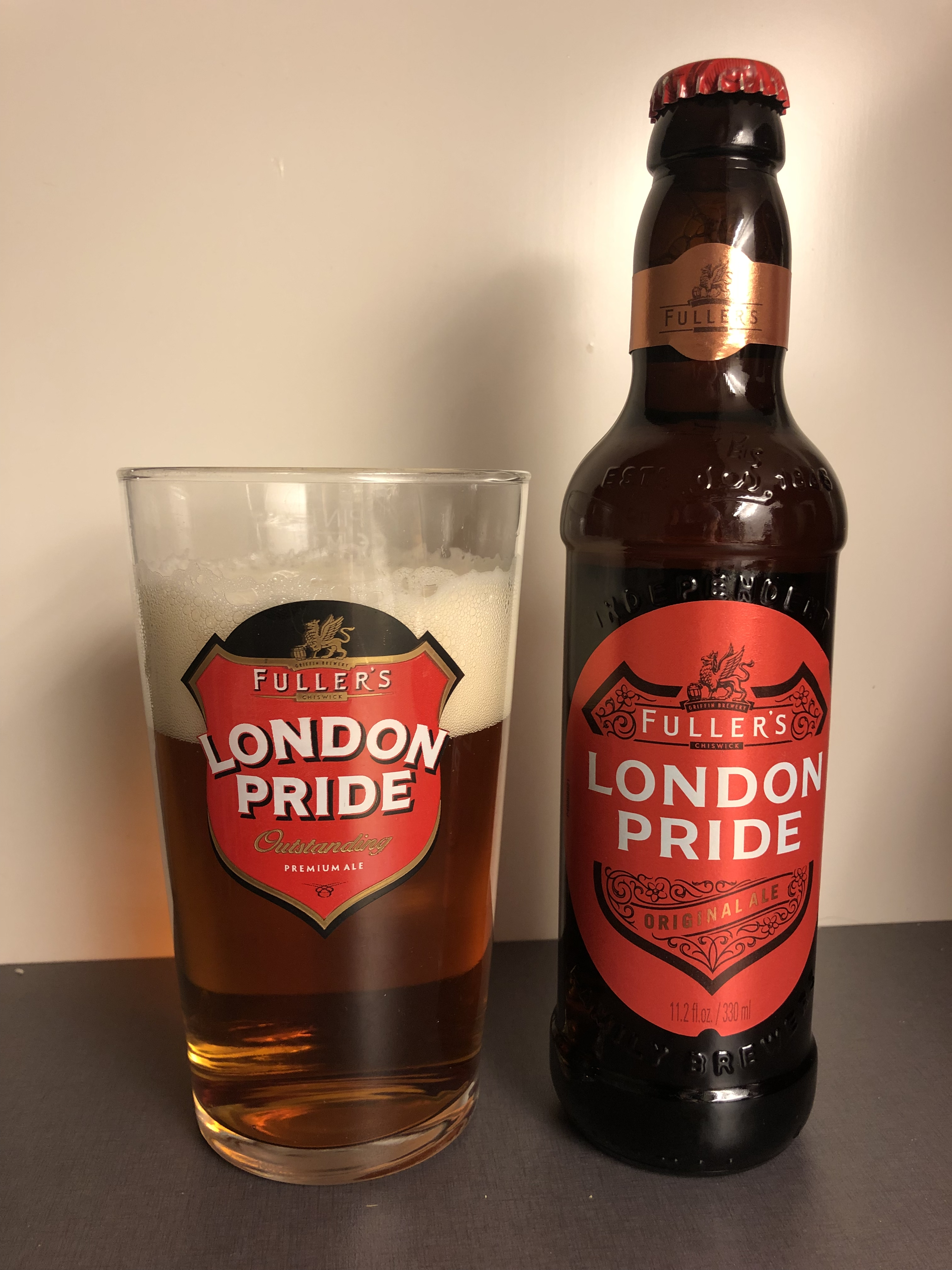 London Pride poured in an original glass, with the bottle next to it